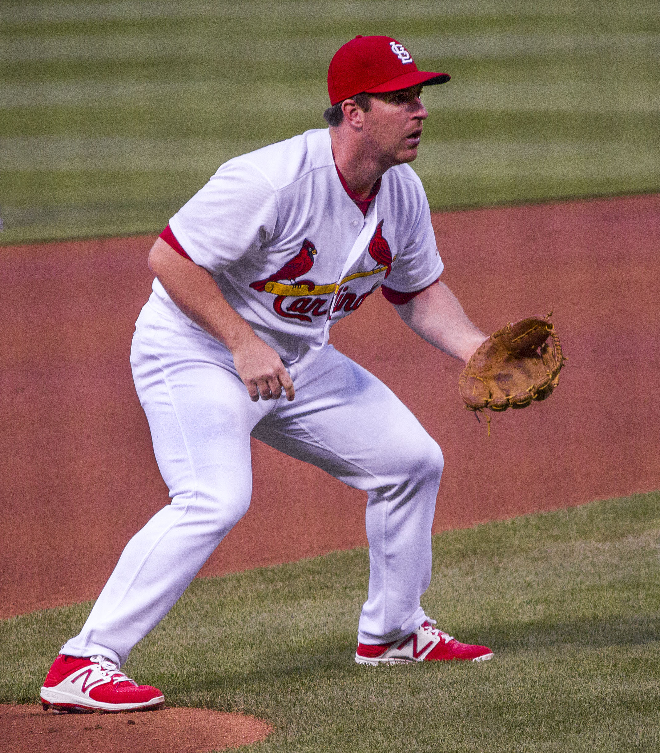 Cardinal Infielder Jed Gyorko in 2017.